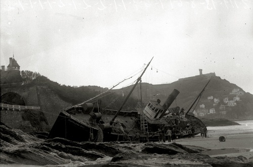 Shipwreck in Kontxa beach.